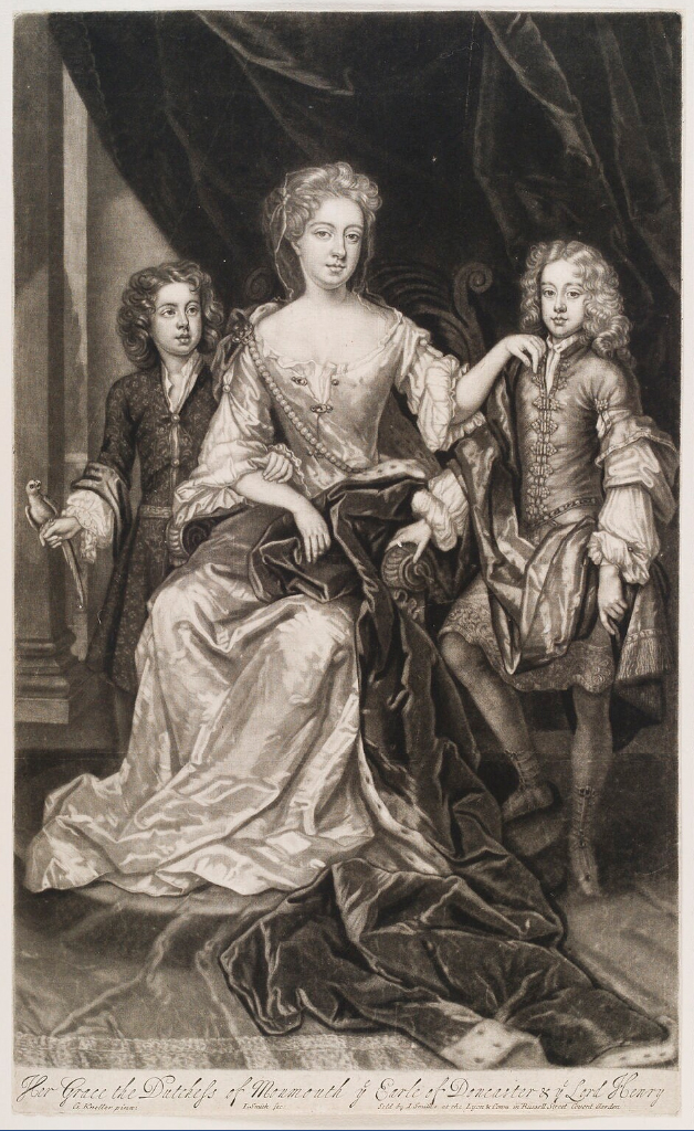 James Scott, Earl of Dalkeith; Anna Scott, Duchess of Monmouth and Duchess of Buccleuch; Henry Scott, 1st Earl of Deloraine